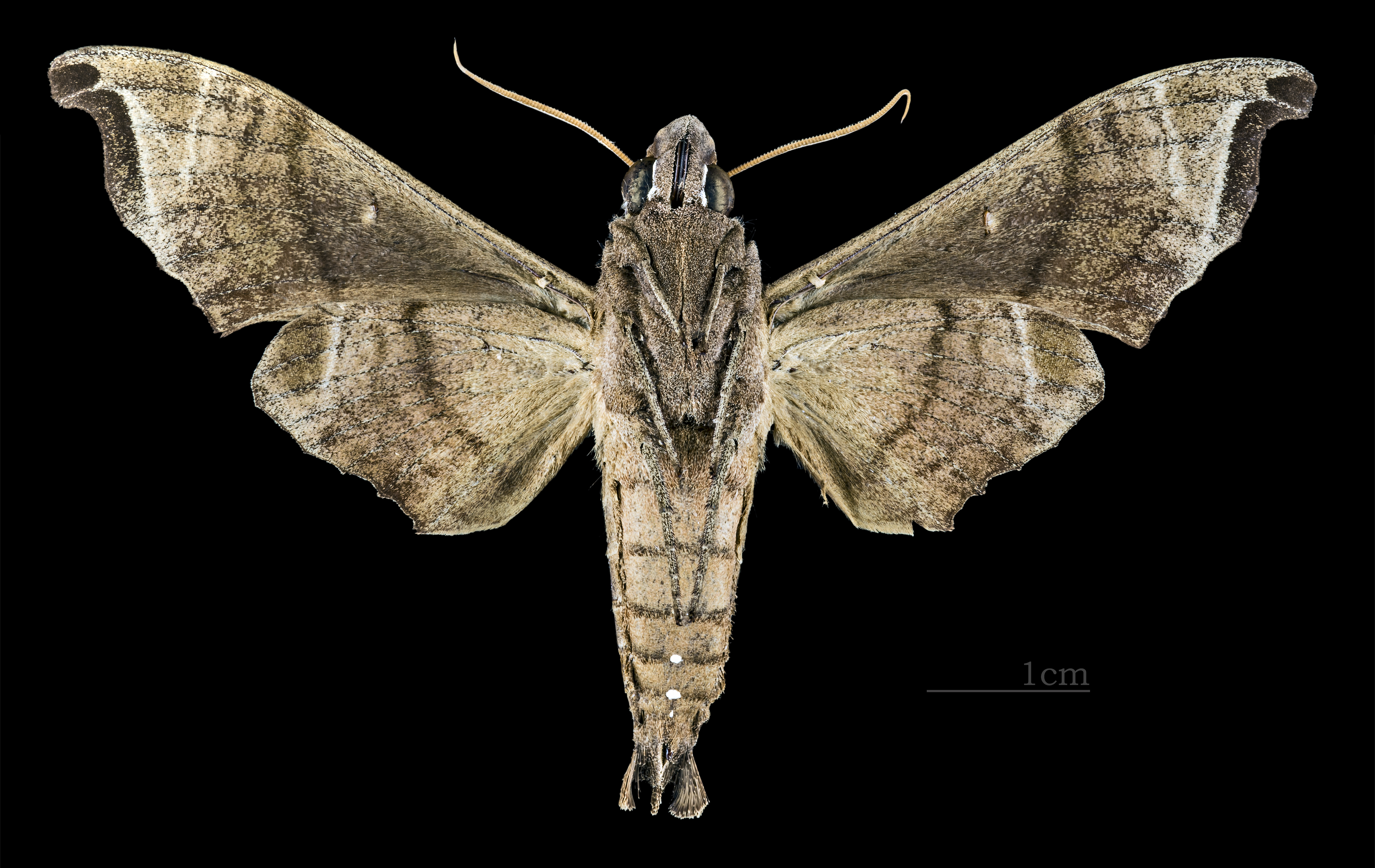 Madoryx bubastus - △ Ventral side Collection of the Mathematician Laurent Schwartz